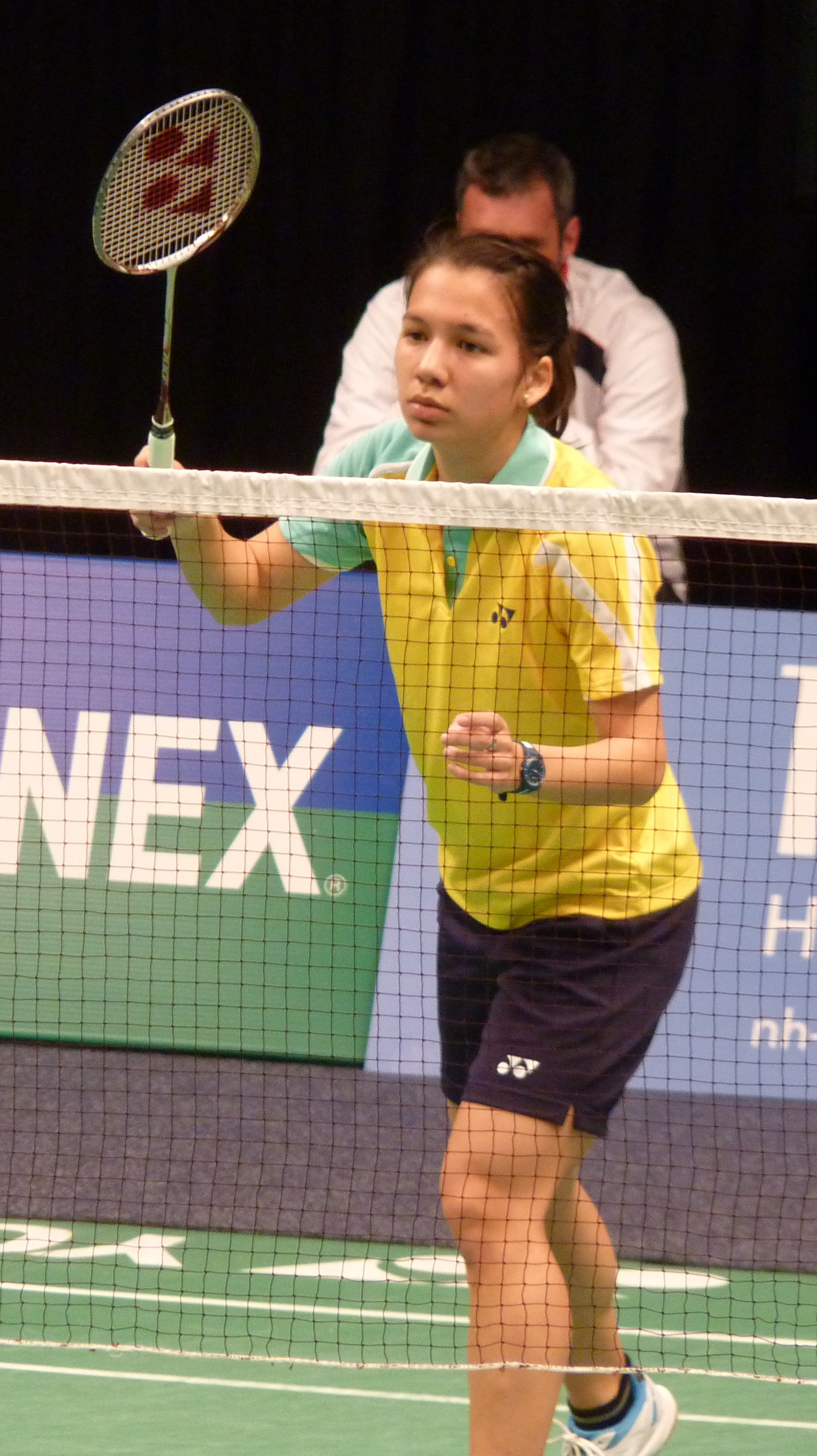 Lianne Tan (BEL)